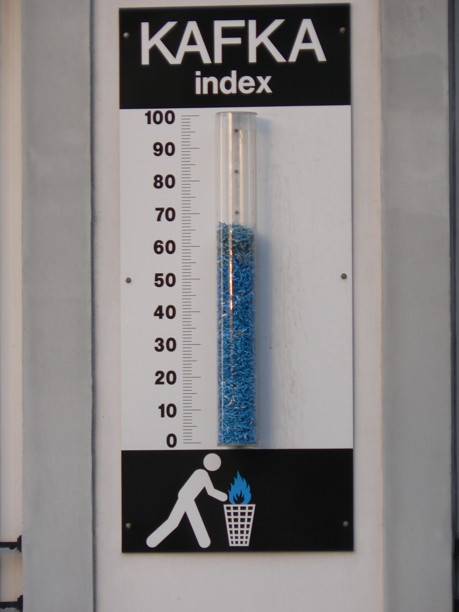 Wetstraat 18, Brussel - own picture